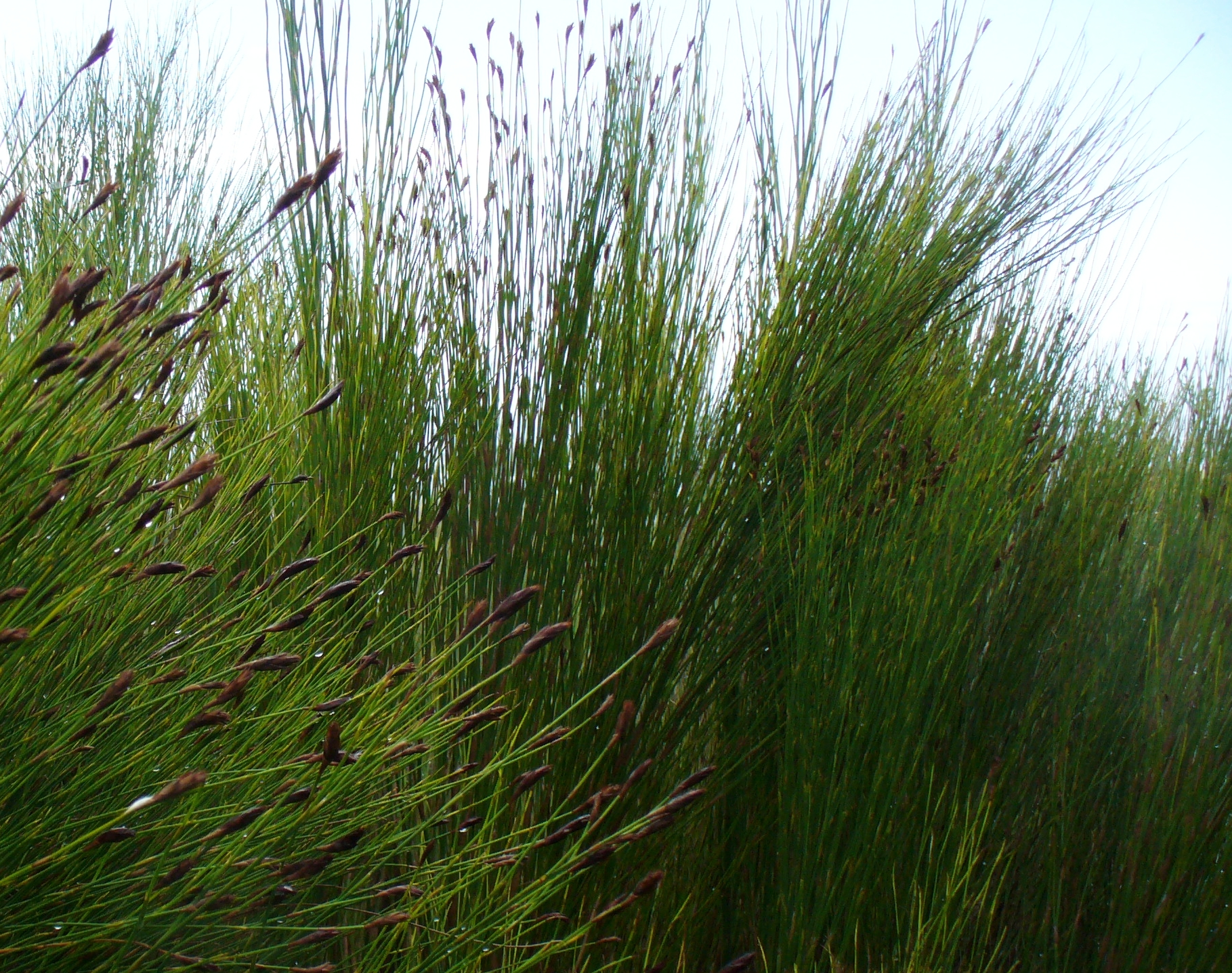 Restios of the cape.